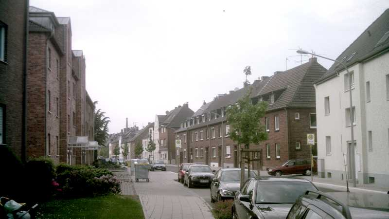 Robend, Viersen, Germany